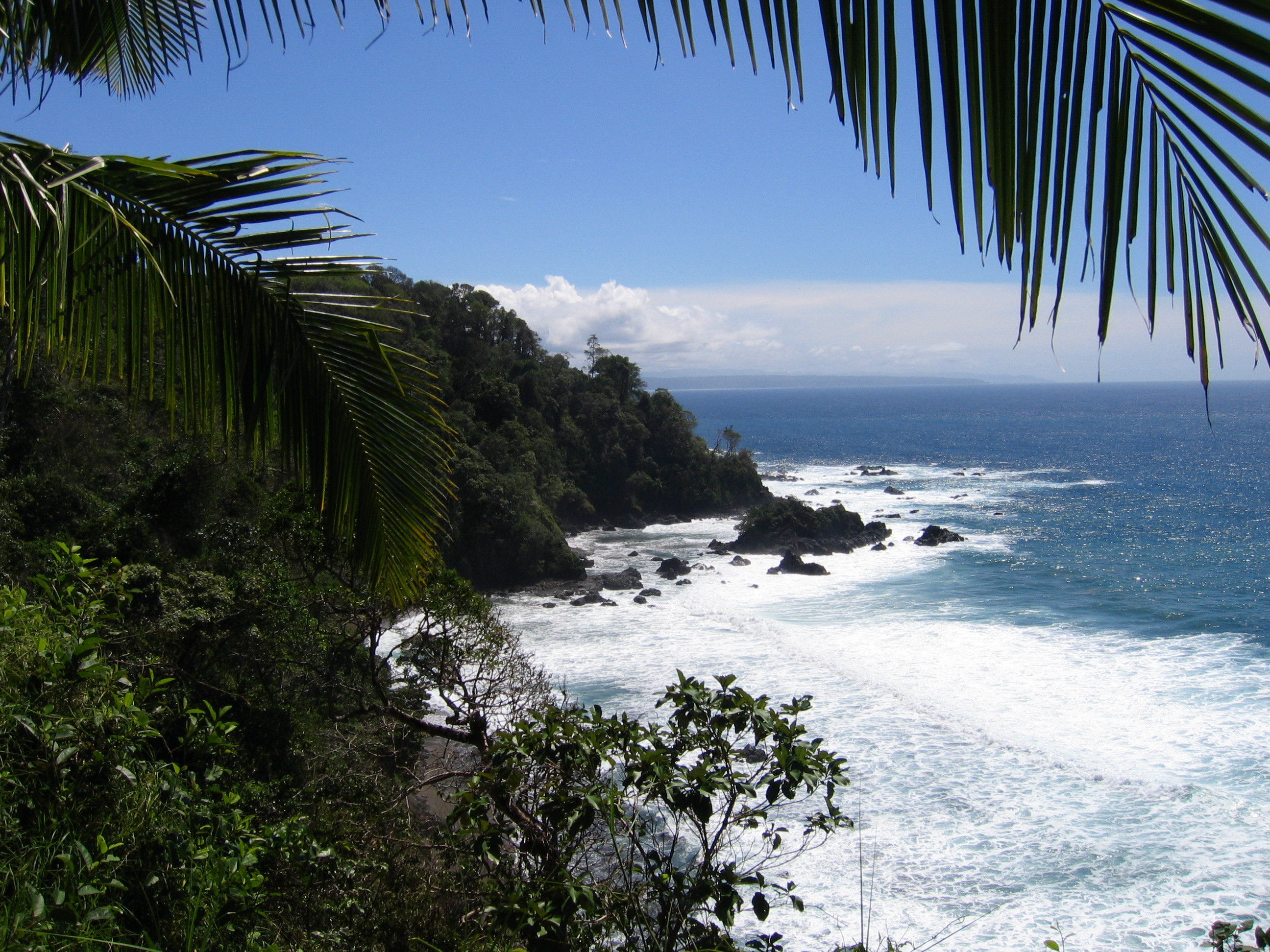 View from Isla del Caño off the cost of Costa Rica Taken by me 5. November 2004